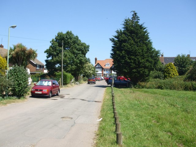 Site of Southwold Railway station This is the site of the former Southwold railway Terminus, the 3 ft Gauge line ran from Halesworth to Southwold and closed in 1929. The Station Hotel is in the background (although the name has changed). The platforms curved to the left as can be seen in this photo.